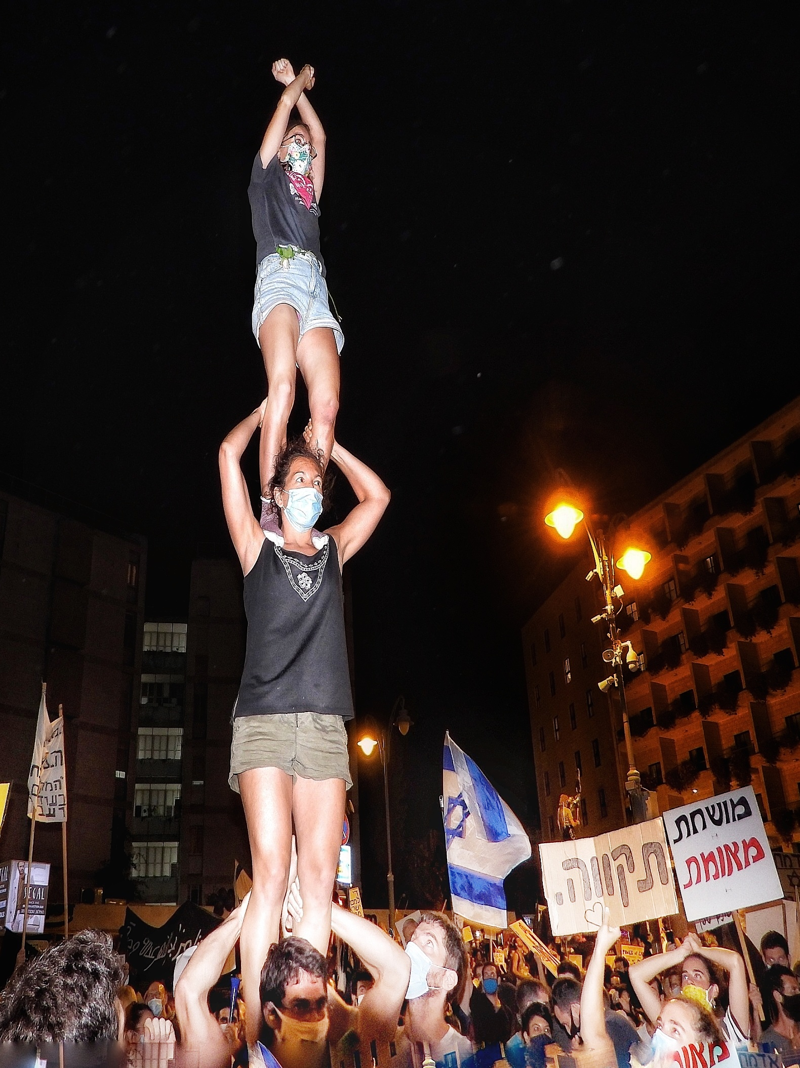 Protests against Netanyahu in Paris Square Jerusalem